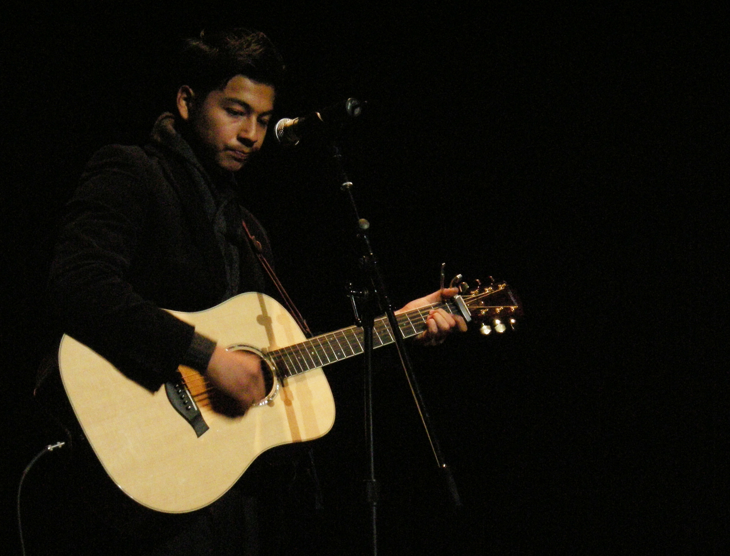 Country rock musician Vince Mira performing at the launch of "Seattle, City of Music", Paramount Theater, Seattle, Washington.